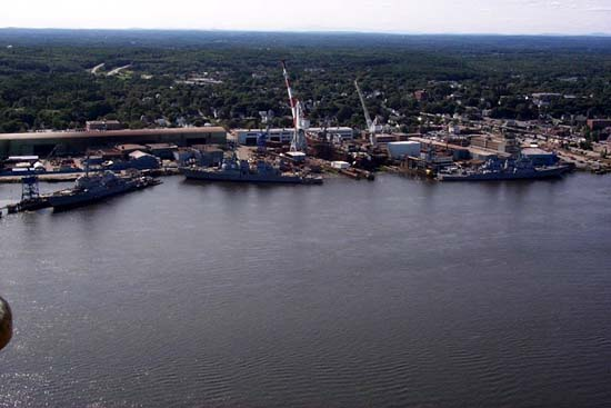 Bath Iron Works (BIW), a shipyard located on the Kennebec River in Bath, Maine (USA). BIW was purchased in 1995 by General Dynamics and is one of the largest private employers in Maine. Visible are three Arleigh Burke-class guided missile destroyers being fitted out.